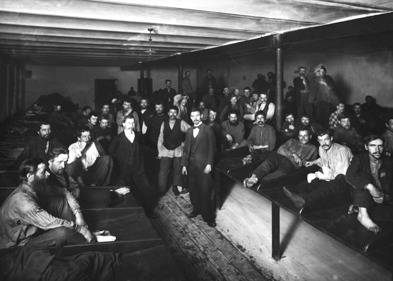 Dosshouse of St. Petersburg Trustees Society of Houses of Diligence